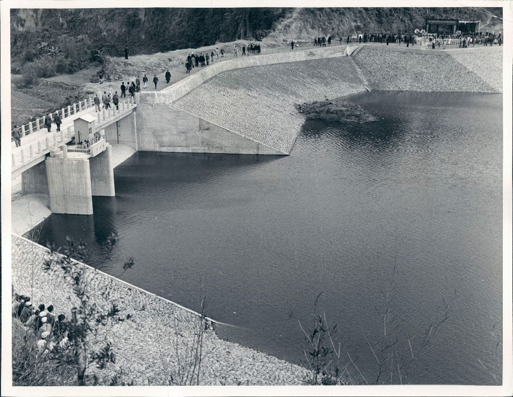 1957 Grass Lake Reservoir, Hsinchu